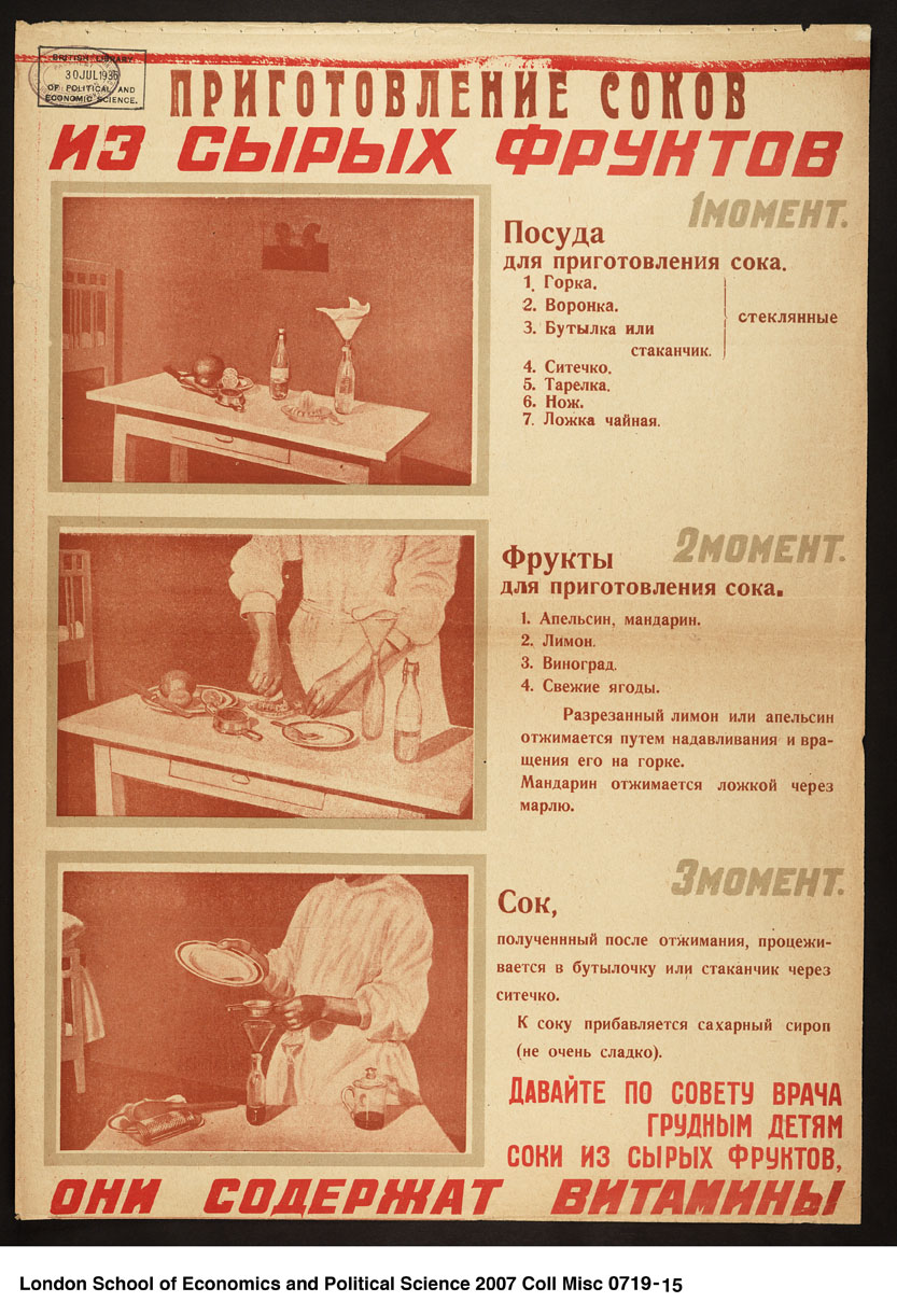 Instructions for preparing juice from raw fruits in three stages, recommended for infants by the Doctors' Soviet. Banner top and bottom, three pictures illustrating the materials and technique running vertically down left, with instructions on right. Printer: Trud i tvorchestvo Publisher: Gosmedizdat? Place of Production: Moscow Date: 1930 Persistent URL: misc 0719/15')